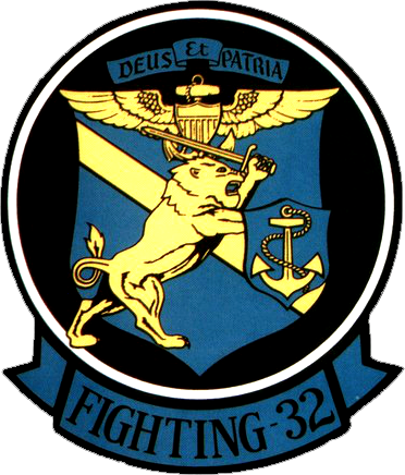 Insignia of the U.S. Navy Fighter Squadron 32 (VF-32) "Swordsmen".